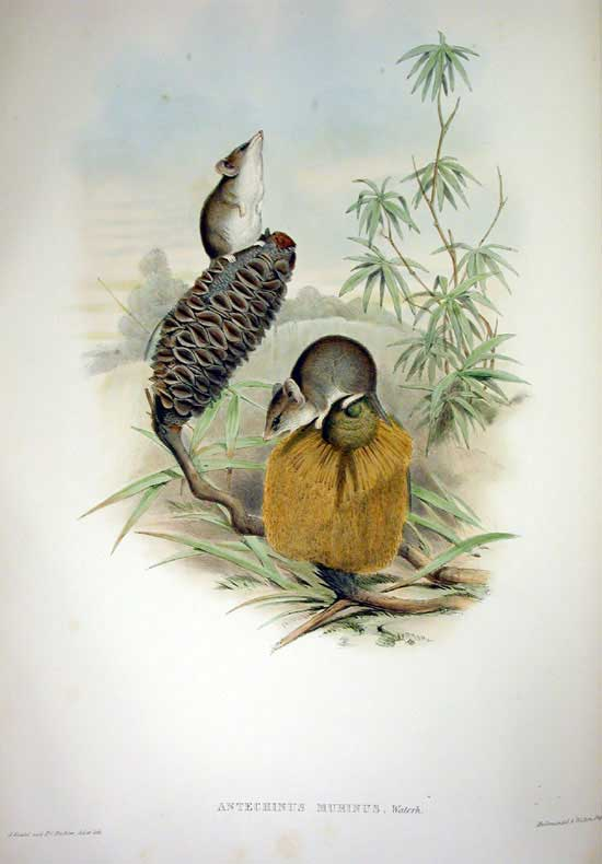 Sminthopsis murina - formerly known as Antechinus murina. John Gould print image of the Common Dunnart Sminthopsis murina (formerly known as Antechinus murinus) Photo from "Mammals of Australia", Vol. I Plate 43 Part of the 3 Volumes by John Gould, F.R.S. Published by the author, 26 Charlotte Street, Bedford Square, London, 1863